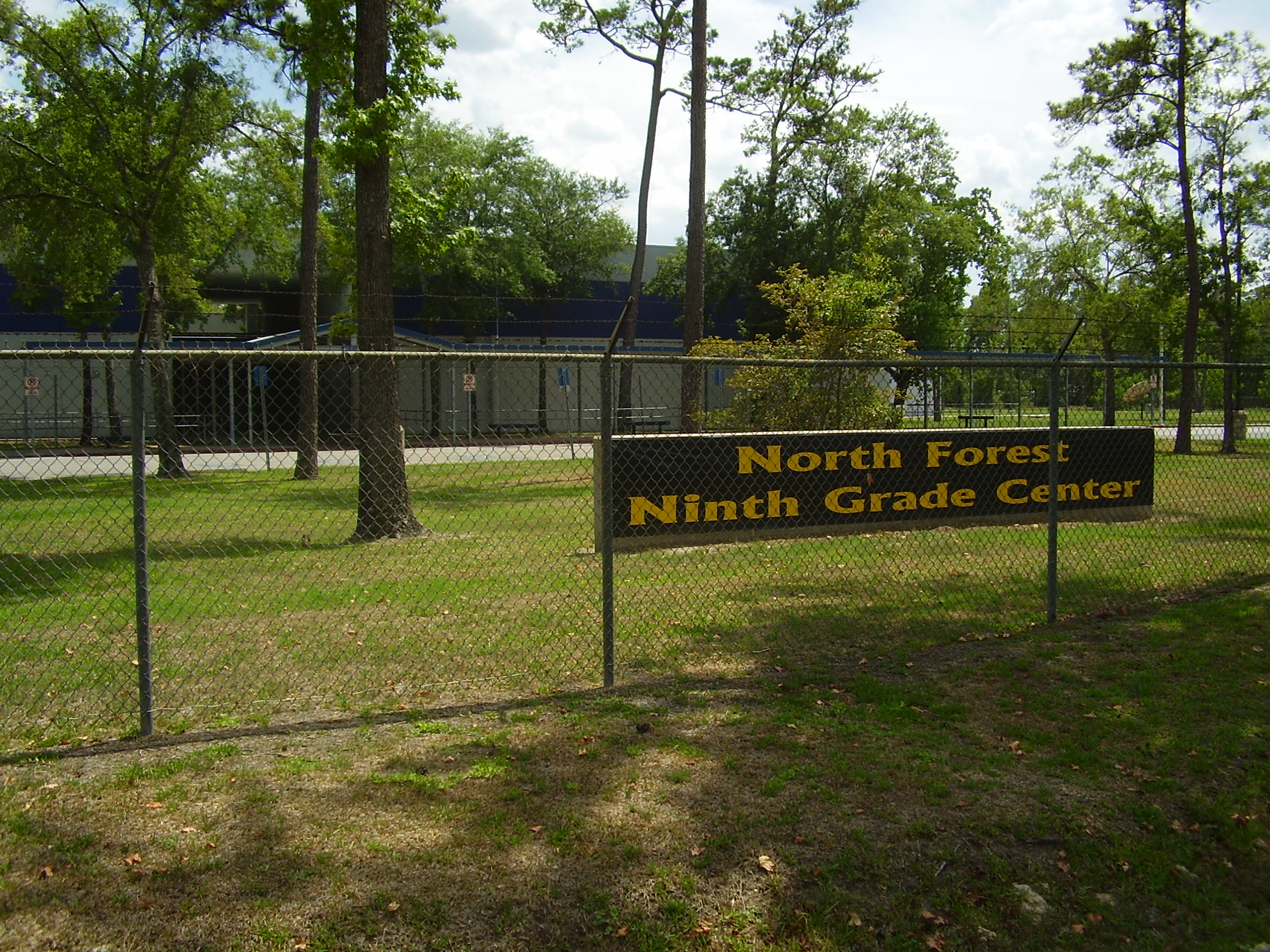 North Forest Ninth Grade Center - Formerly Oak Village Middle School